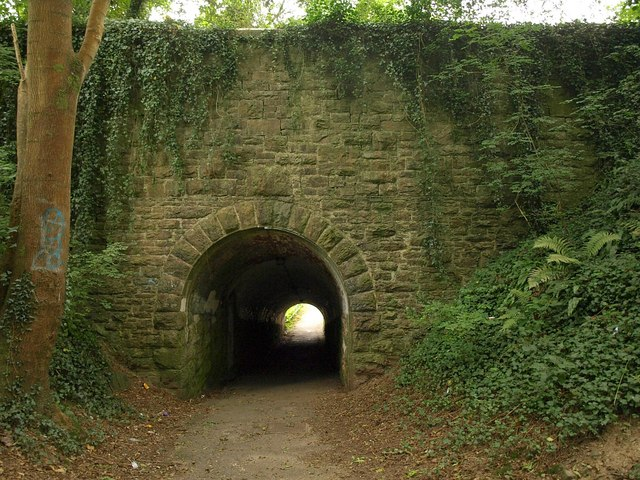 Efford Emplacement "Efford Emplacement to the south of Efford Fort survives in the form of an earthwork rampart topped by three earthen traverses, each of which held two guns. It was an open earthwork battery sited across a small valley between Efford Fort and Laira Battery, facing due east and commanding the chicane approach to the sally port over which it is built. Built in 1869 to mount 4 64-pounders, it was later armed with six 8-inch rifled muzzle-loaders. Much of it is now covered over and infilled. " , with spelling amended. This is the tunnel shown in 1523997.